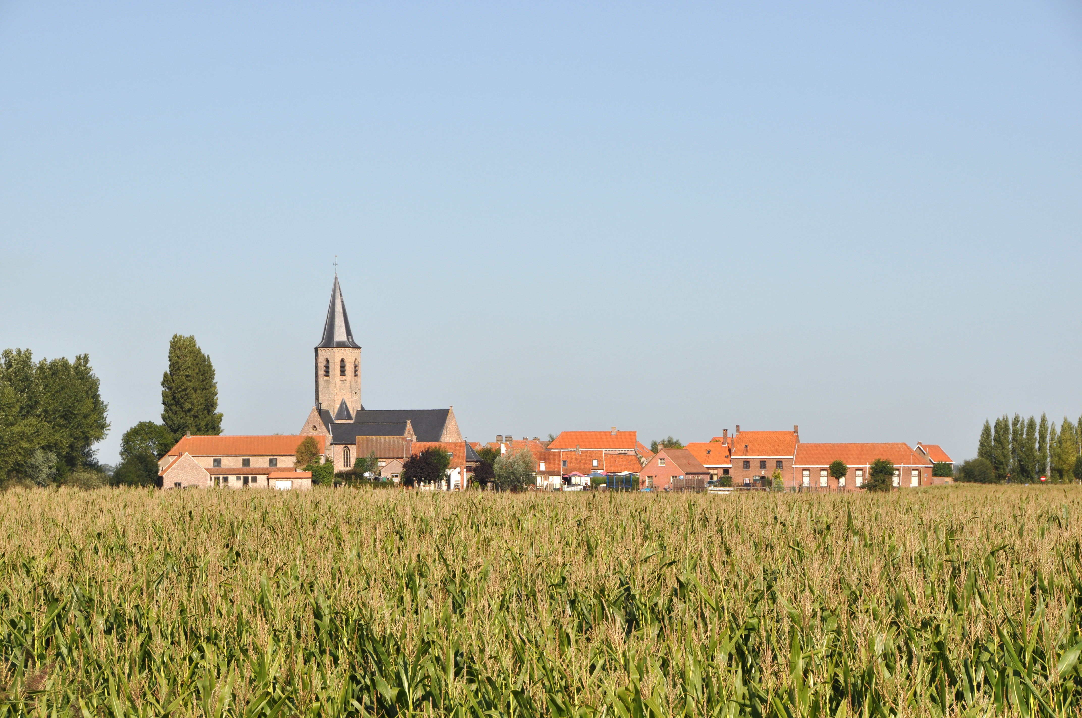 The village of Meetkerke (West Flanders, Belgium)